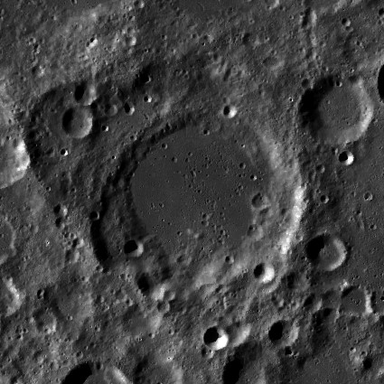 LROC . Dark-floored Lebedev lies at the farside eastern sector of Mare Australe .